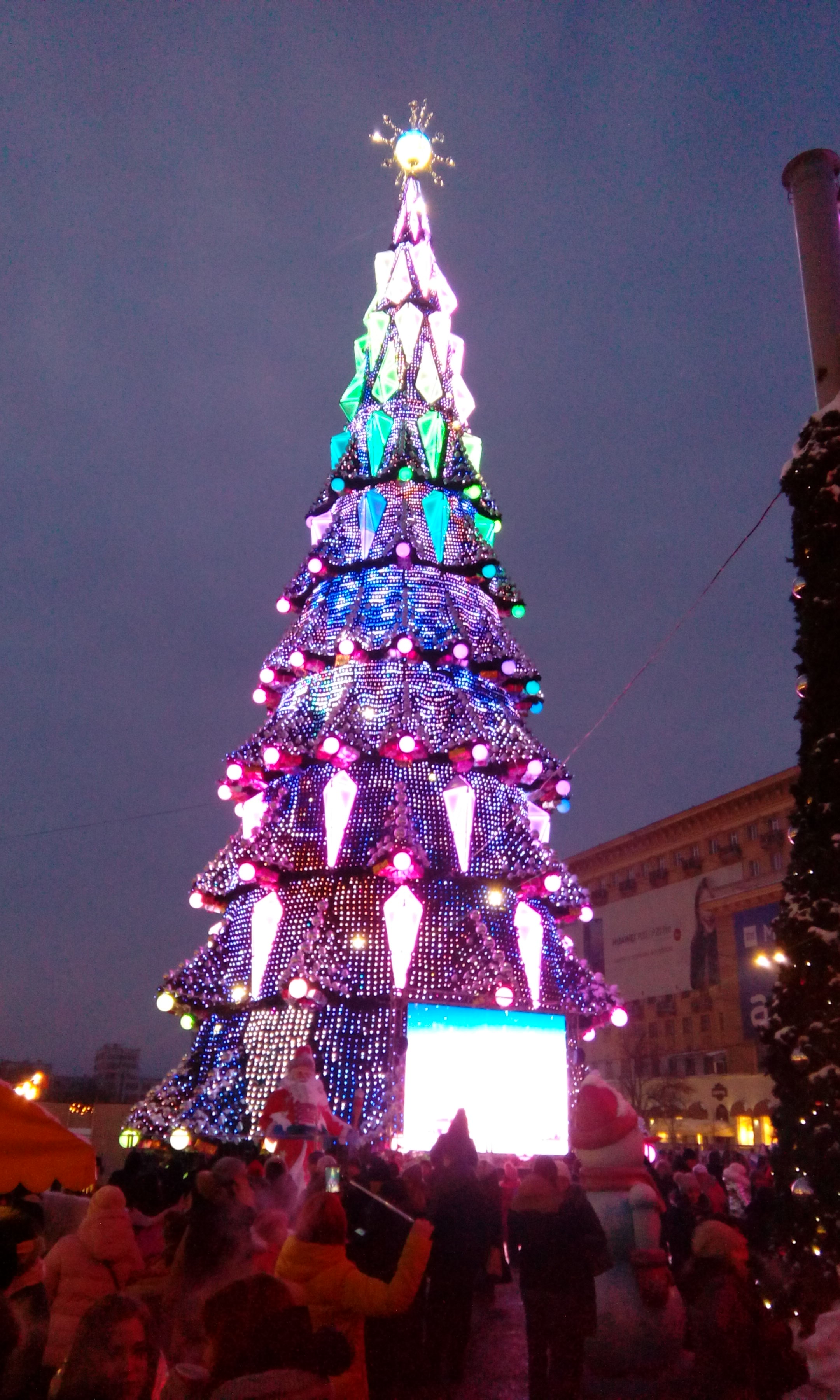 New Year trees in Kharkiv